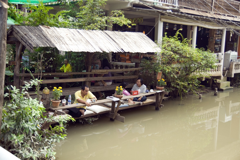 Coffee shop, café.